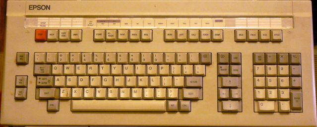 Image of an Epson QX-16 keyboard